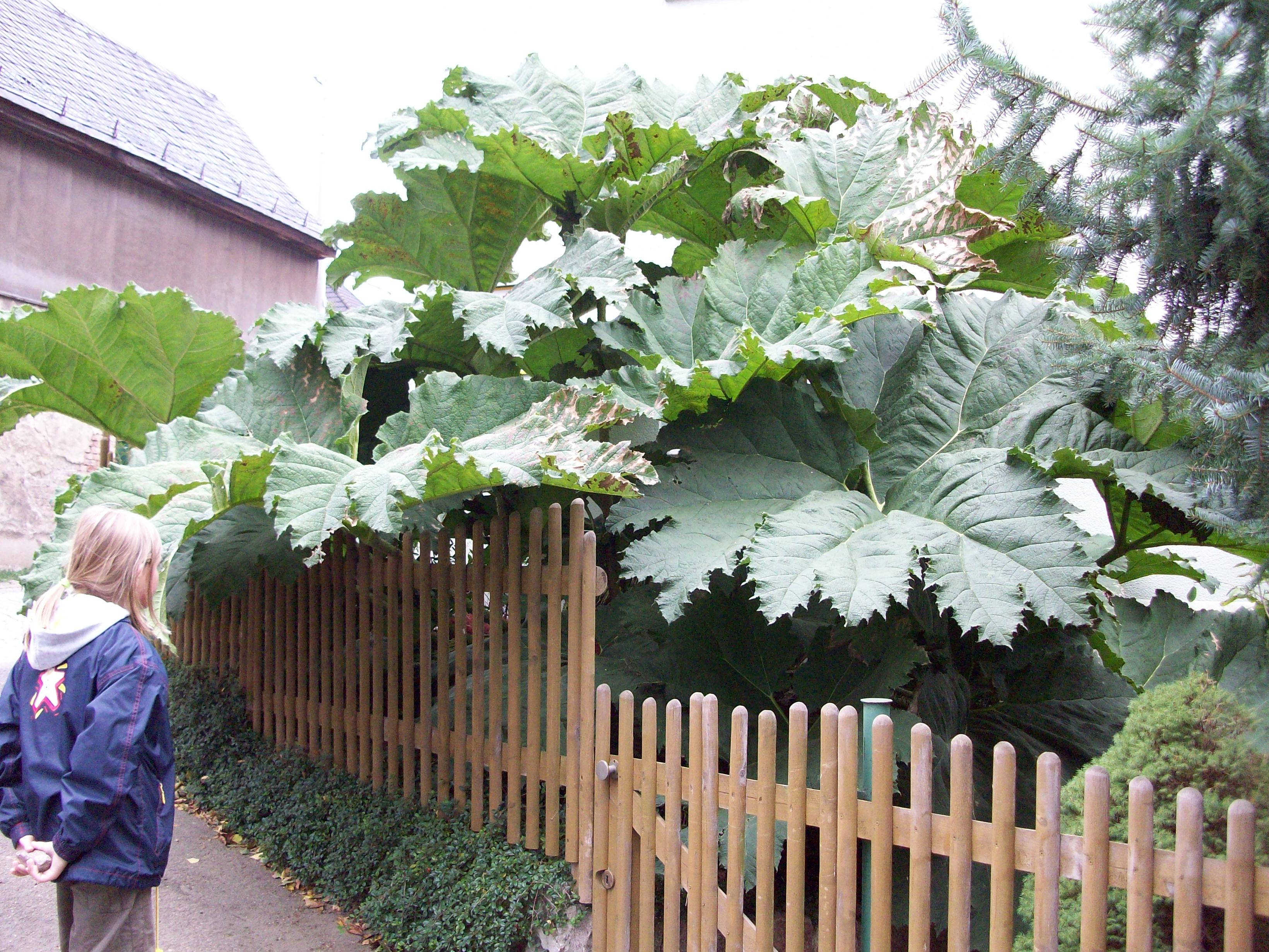 Gunnera manicata, photographed in the village of Niederlungwitz, part of the German city Glauchau, complete ornamental plant, compare dimensions with the ten y. old child to the left; Image (3/3); 2 other photos of same plant: Image 1/3, Image 2/3